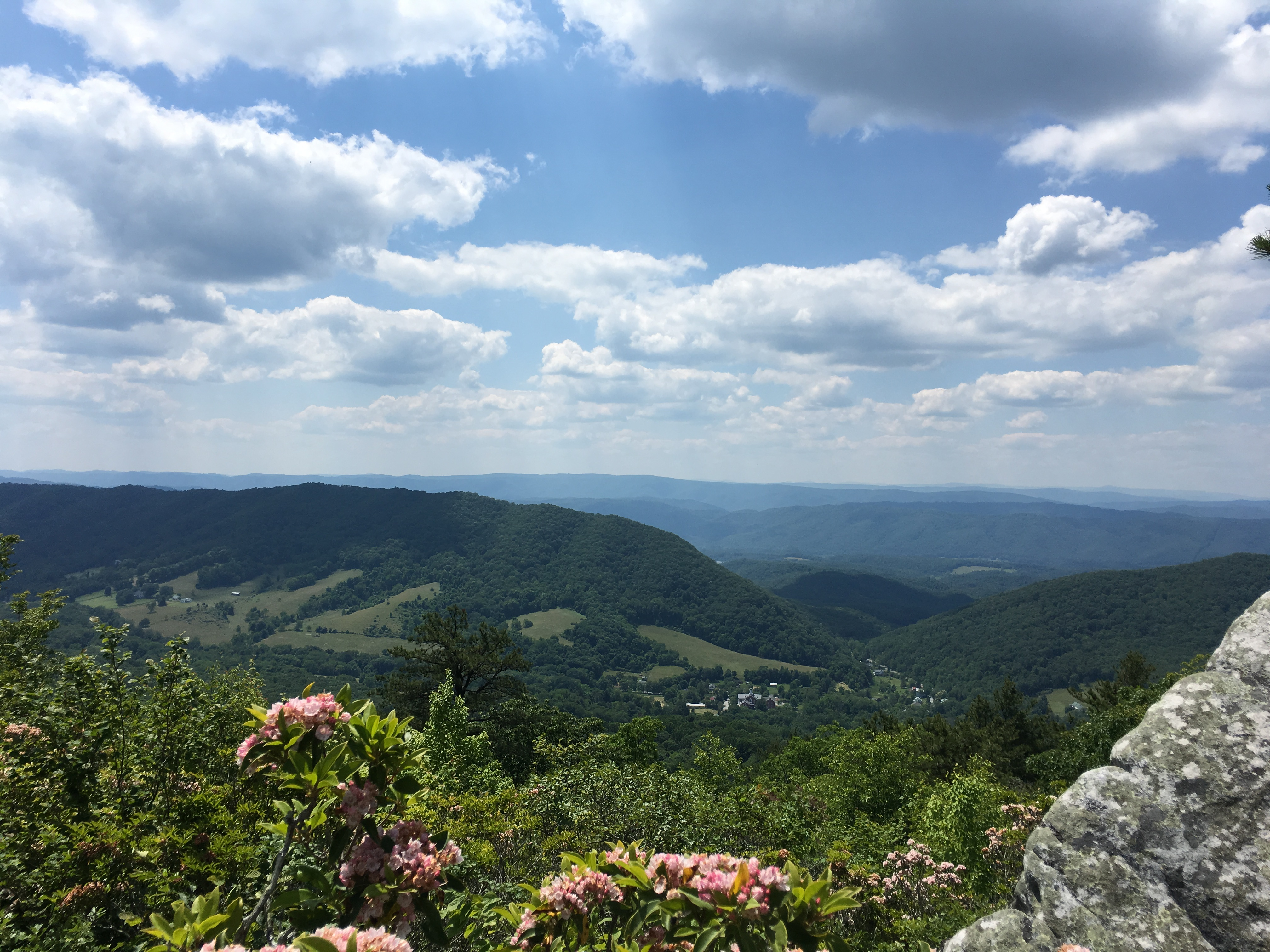 View of Warm Springs Valley from Warm Springs Mountain